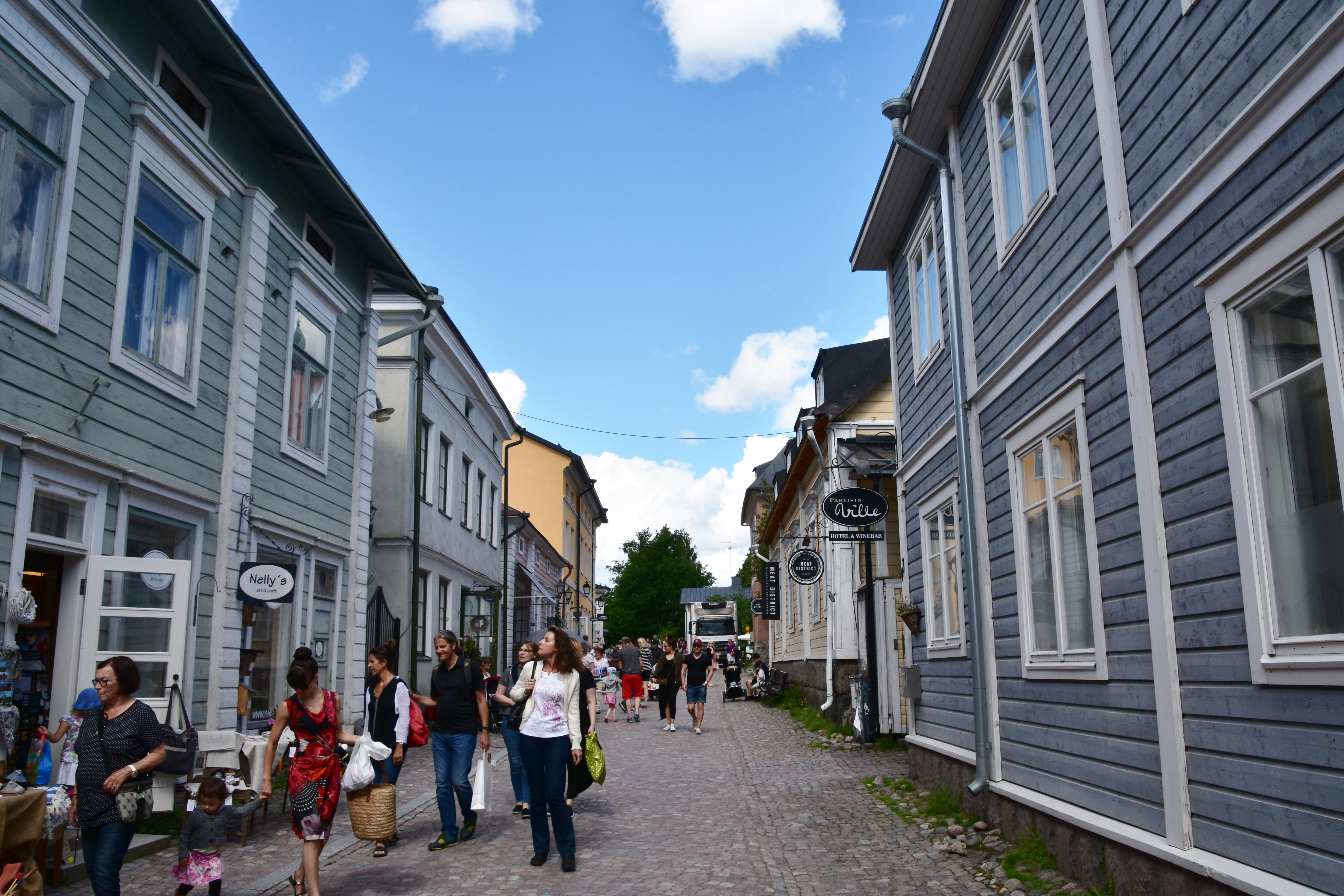 Porvoo Old Town (75)